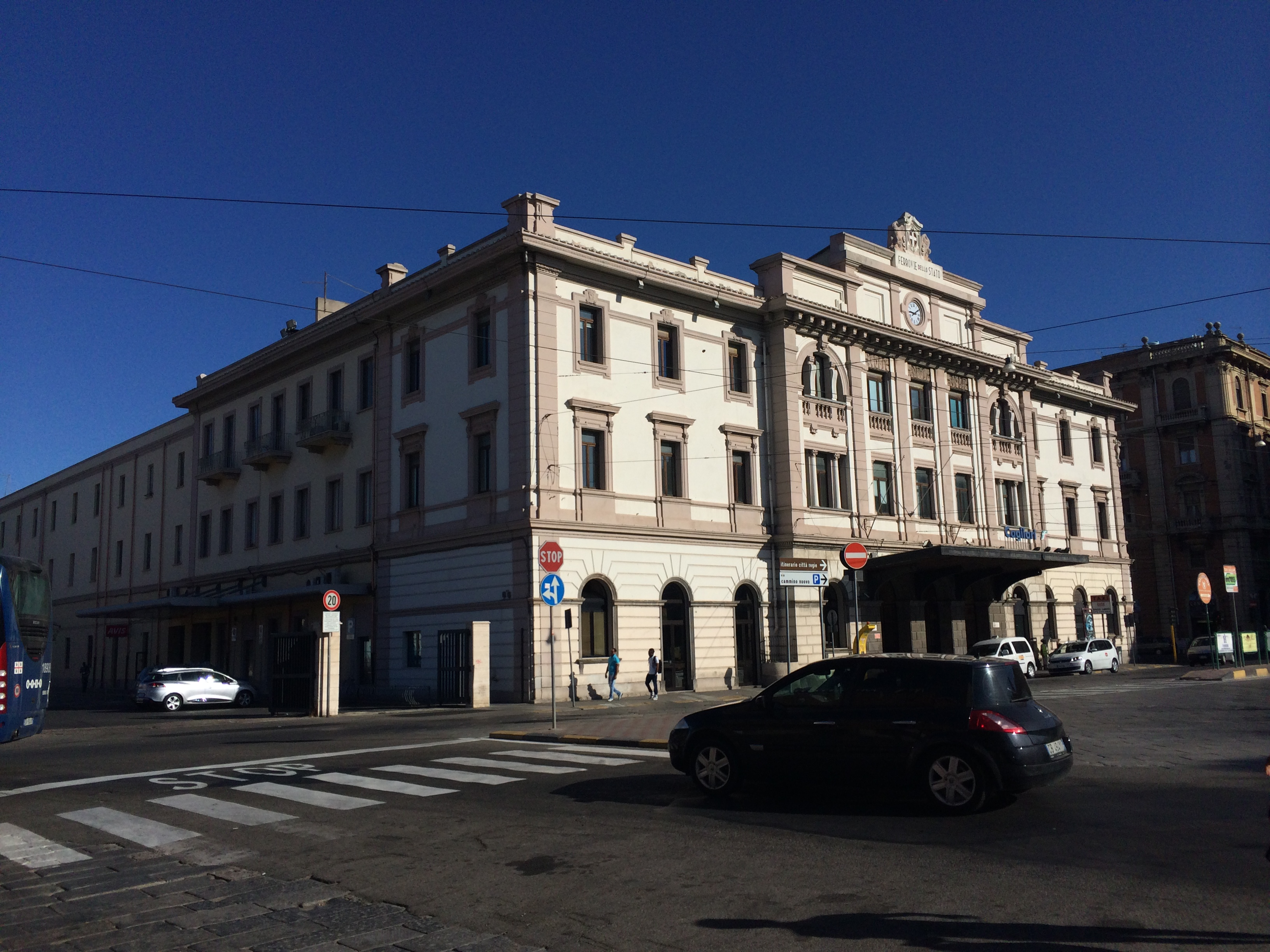 The main building of the Cagliari train station, in Sardinia, Italy